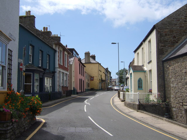 Main Street The way into Fishguard from the north: the square at the town centre lies straight ahead. Catering rather than retail outlets are located here; the Globe sign seen in this image has gone however as the pub has been replaced by a restaurant. The blue house, left, has an original bow window, while the stone cottage, right, still possesses a sailmaker's loft.